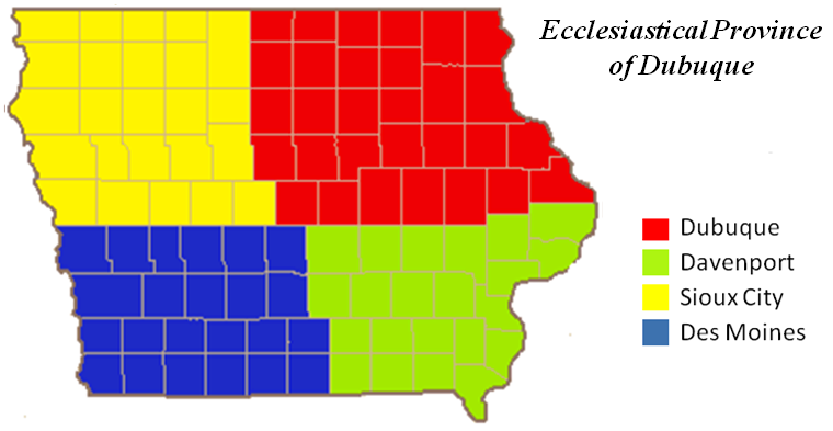 The Ecclesiastical Province of Dubuque encompasses four dioceses of the Catholic Church in the US state of Iowa.